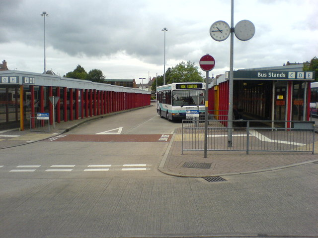 Leigh Bus Station